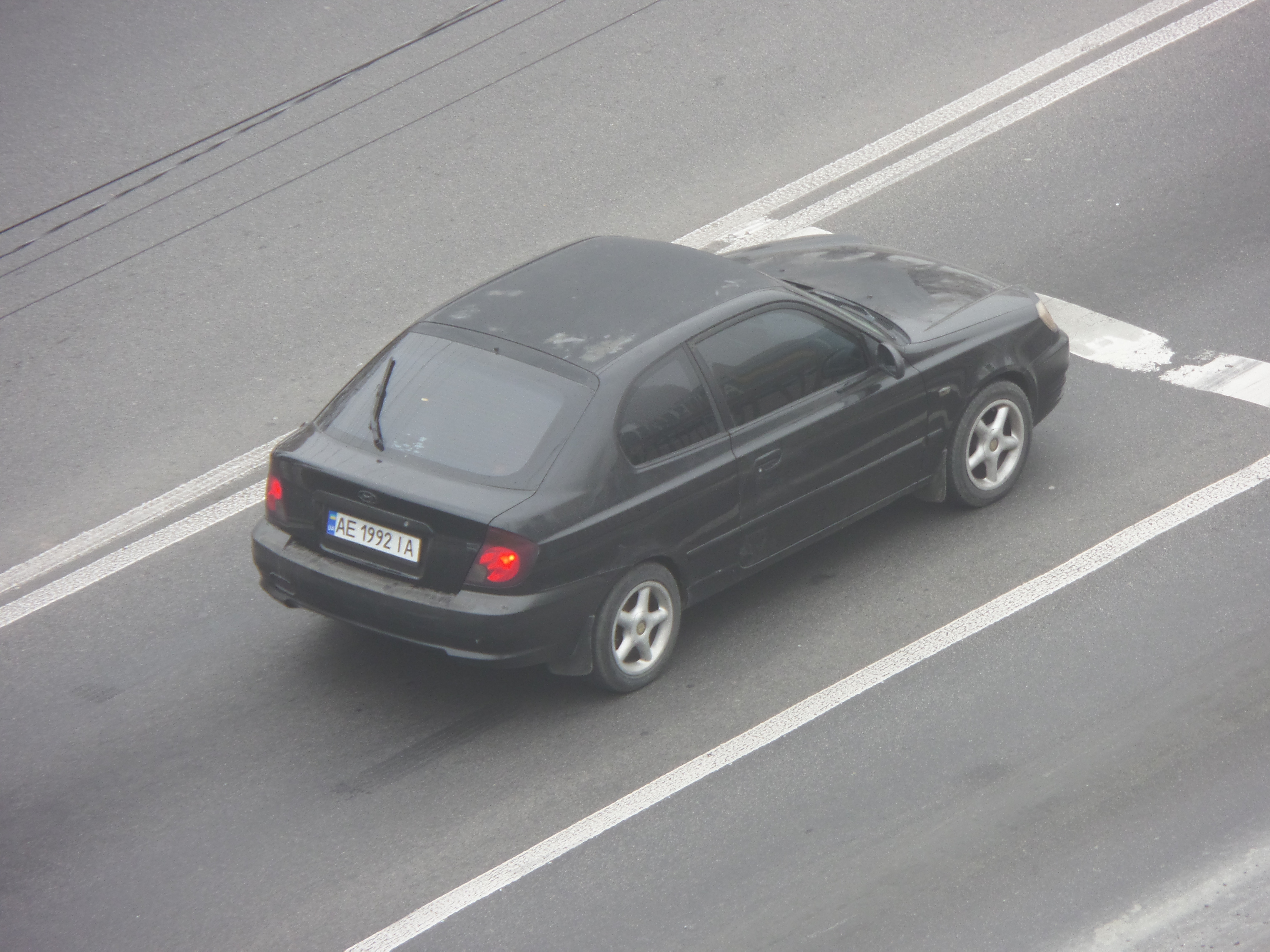 Hyundai accent 2003; Dnipro, Ukraine; 23.10.19